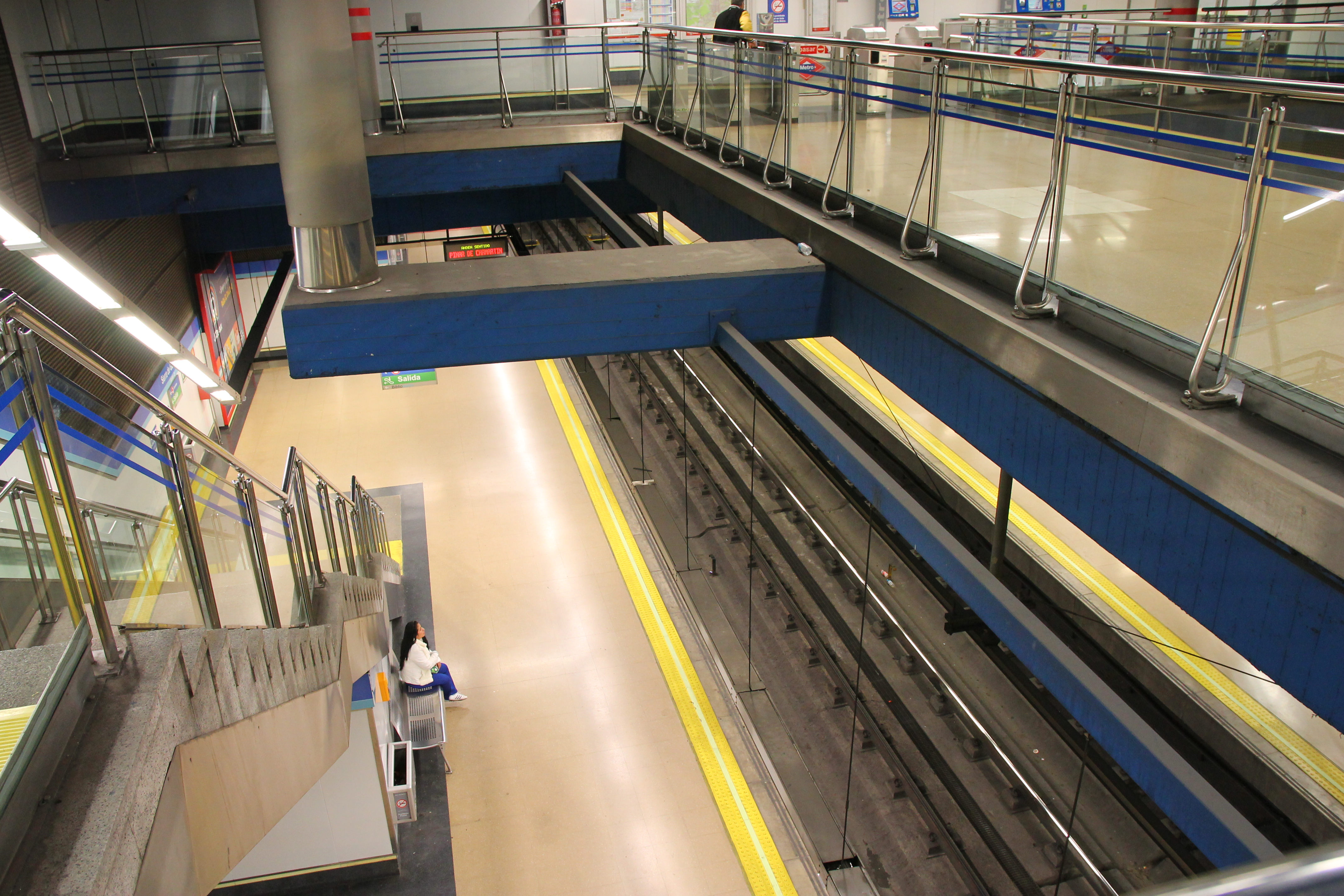 Sierra de Guadalupe station. Madrid Metro.